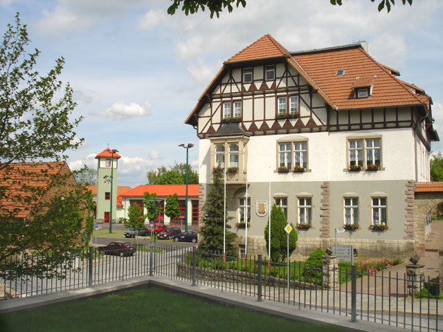 Town hall with new fire station in Ebeleben, Thuringia, Germany